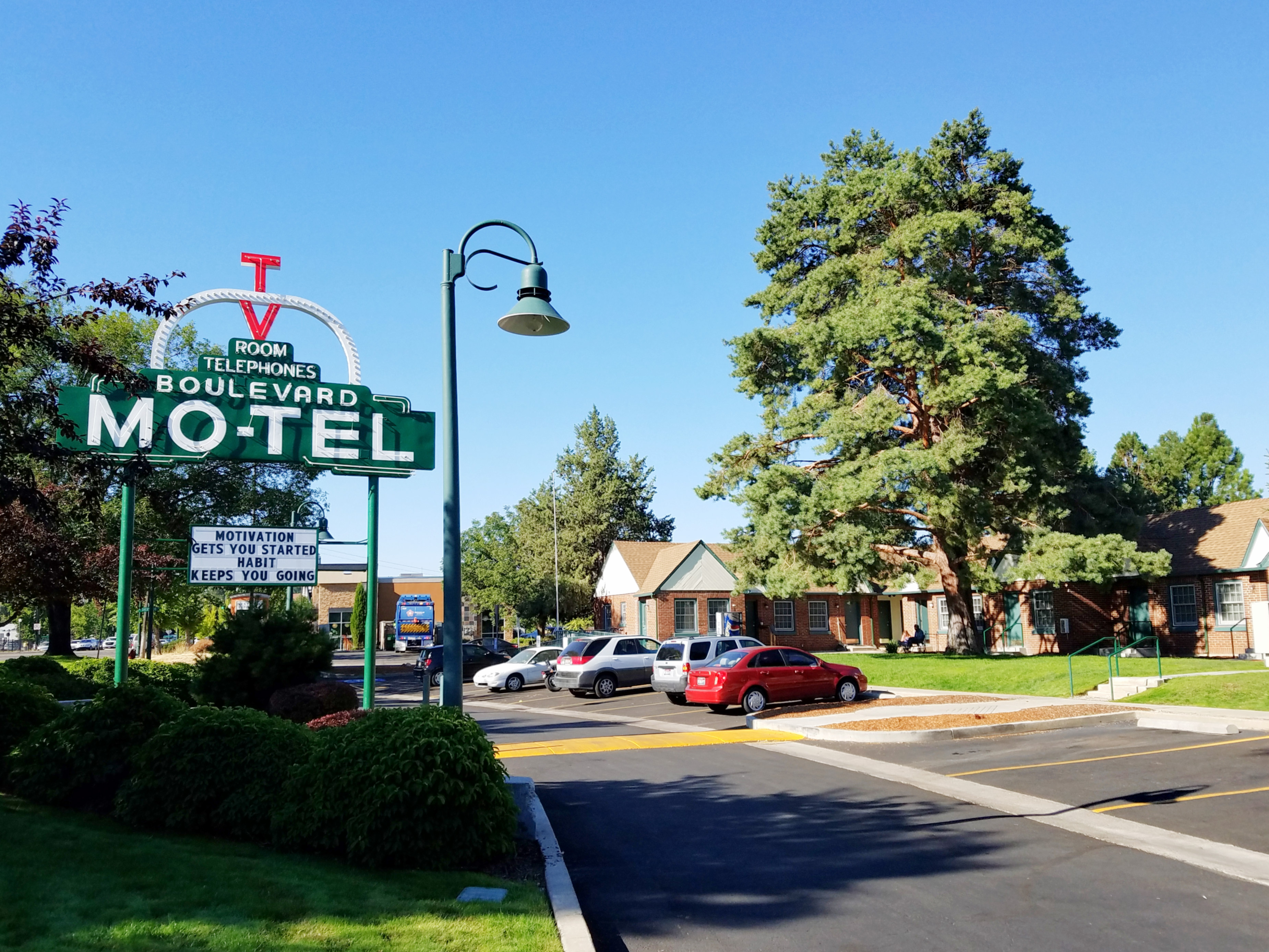 The Boulevard Mo-Tel, originally the Capitol Auto Courts (1938), in Boise, Idaho, is listed on the National Register of Historic Places.